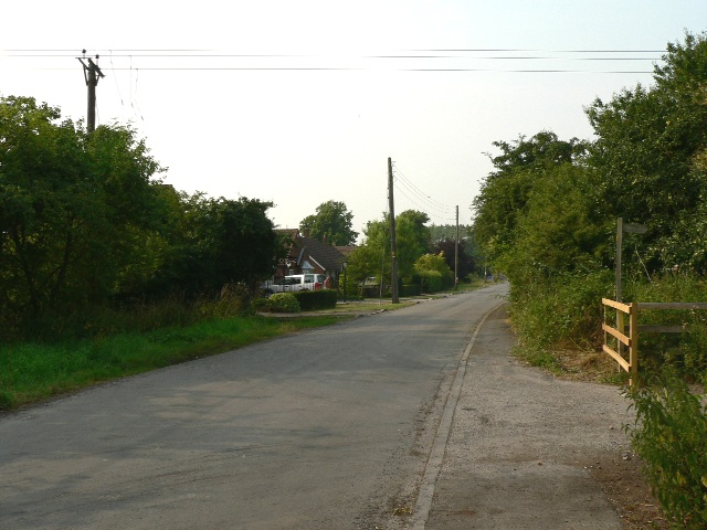 Looking towards Foggathorpe, East Riding of Yorkshire, England, from the former railway station.